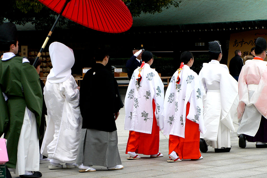 Wedding procession at the Meiji-jingu (明治神宮)